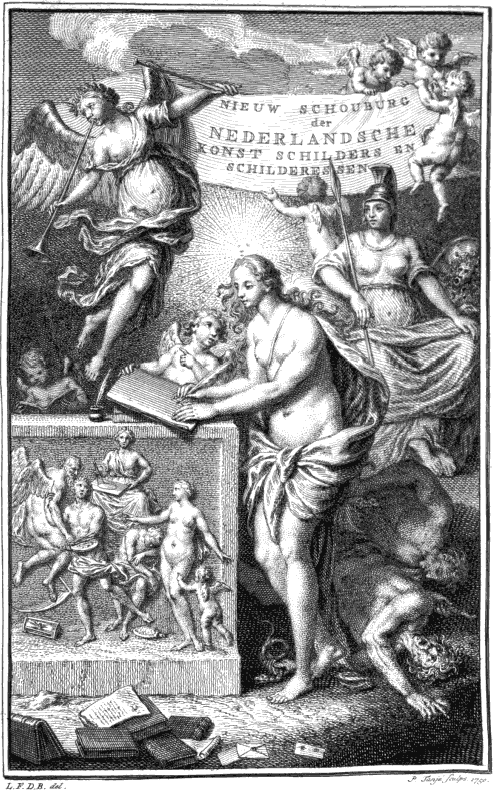 Titleplate van "Nieuwe Schouburg", Jan van Gool's 1750 sequel to Arnold Houbraken's "Schouwburg"(1718). This version presents the writers in alphabetical order, rather than birth order, and makes many corrections and additions to the text. Later editions after 1751 do not include the original titlepage plate. VERKLARING DER TITELPRINT. DE Waerheit, onder 't oog en opzicht van Minerf, Befchryft hier, onvermoeit, de kunft- en levensdaden Der Schilderhelden, die, gekroont met lauwerbladen, Gequeekt zyn op den gront van Batoos wettig erf; En welkers kunftroem door de Faem wordt uitgeblazen: Terwyl de Schryffter, met een Zonnekroon bekleet, De Nyt en Luiheit, kloek, met haeren voet vertreet: - Ten teken , datze niet op dit gefpuis wil azen ; Maer liever honig zuigt uit boek- еn briefgeryf; Het geen den voorgront dekt,en dat haer, van de braven Groothartig toegevoegt, niet weinig in 't befchaven Geholpen heeft van dit onfterfelyk gefchryf. De Zuil, haer leffenaer, vertoont ons, met wat vlyt De Schilder, vadzigheit en welluft heeft te laeken, Te vlieden als een peft; оm, ryk van lof, te raeken Ter kunjtvolkomenheit, door oeffening en tyt. A. KUIPERS.